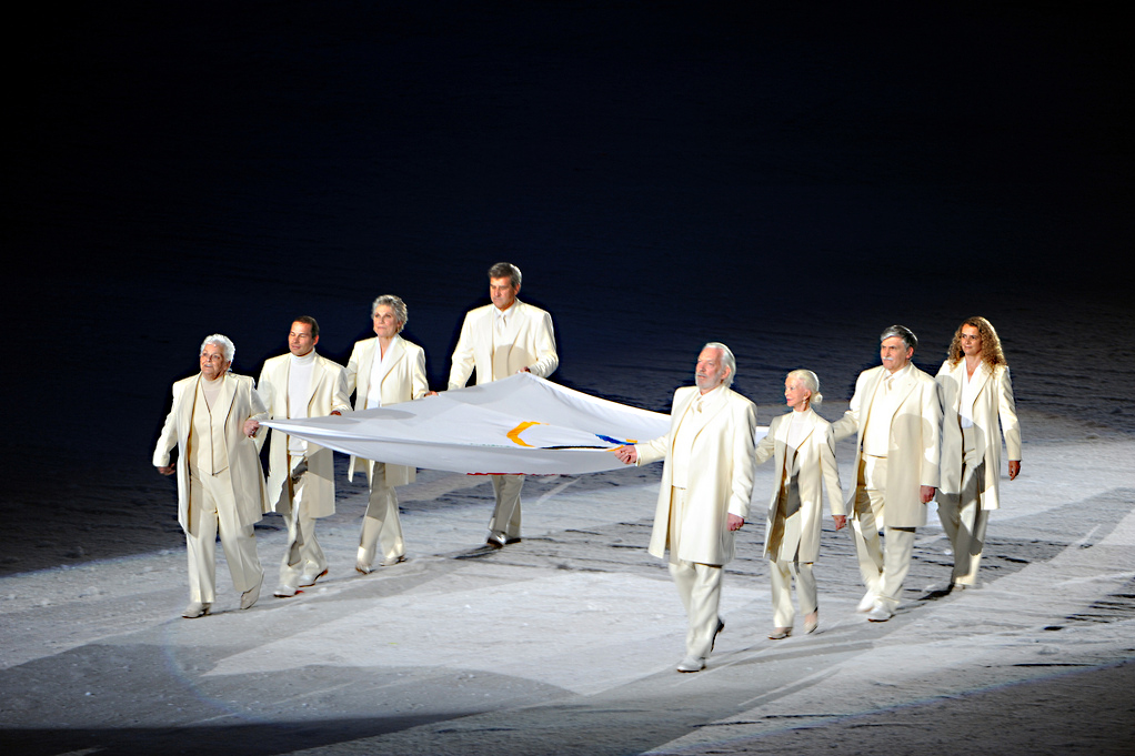 The Olympic flag is carried into BC Place stadium during the Opening Ceremony of the XXI Olympic Winter Games, Vancouver, British Columbia, Canada, Feb. 12, 2010. Left to right, Betty Fox, mother of the late cancer activist Terry Fox; Jacques Villeneuve, the only Canadian race car driver to win both the Indianapolis 500 and Formula 1 world championship; four-time Grammy Award winning singer Anne Murray; Bobby Orr, National Hockey League legendary defenceman; Emmy-award winning actor Donald Sutherland; Barbara Ann Scott-King, 1948 Olympic figure skating gold medalist; Meritorious Service Cross recipient retired Canadian Lt. Gen. Romeo Dallaire, and Canadian astronaut Julie Payette are carrying the flag.